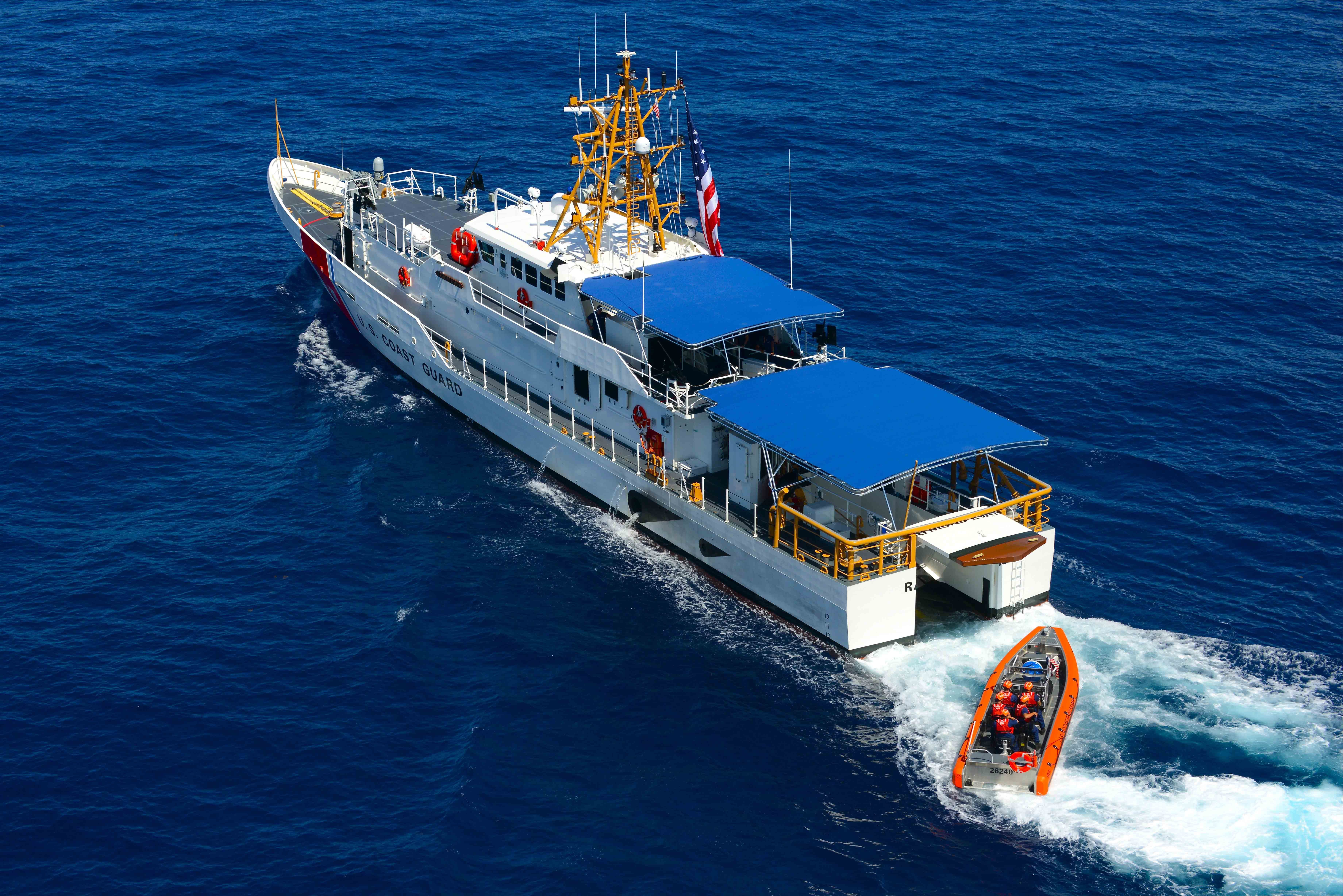 Original caption: “ The Coast Guard Cutter Raymond Evans, newest fast response cutter due to be commissioned in Key West, Florida, launches their small boat July 25, 2014. The Raymond Evans is the fourth fast response cutter to be commissioned in Key West. (Coast Guard photo by Petty Officer 3rd Class Jon-Paul Rios) ” This Image was released by the United States Coast Guard with the ID 121118-G-KZ985-377 (next). This tag does not indicate the copyright status of the attached work. A normal copyright tag is still required. See Commons:Licensing for more information.